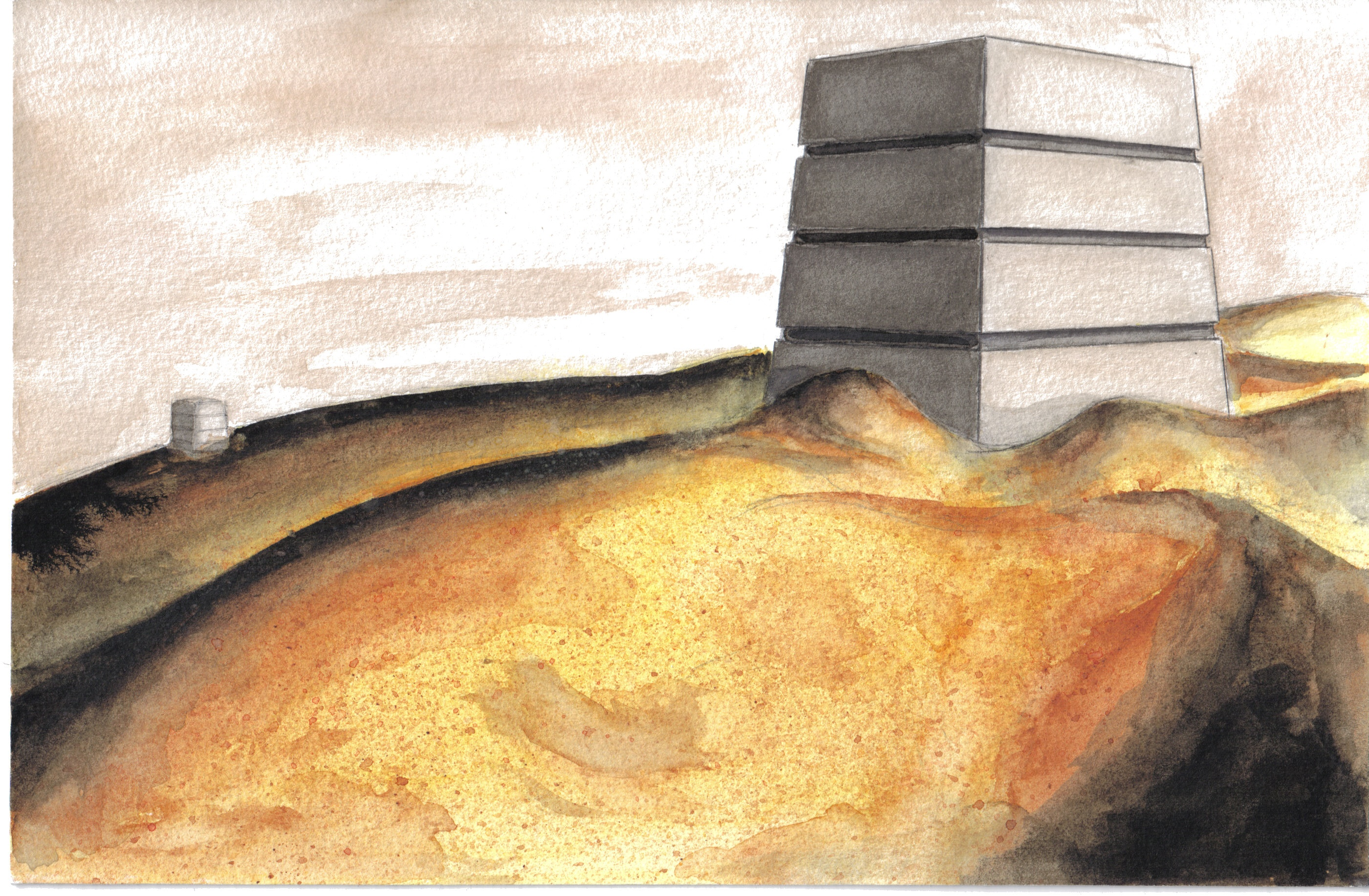 Arrakis (Fan Art) from "Dune" by Frank Herbert.